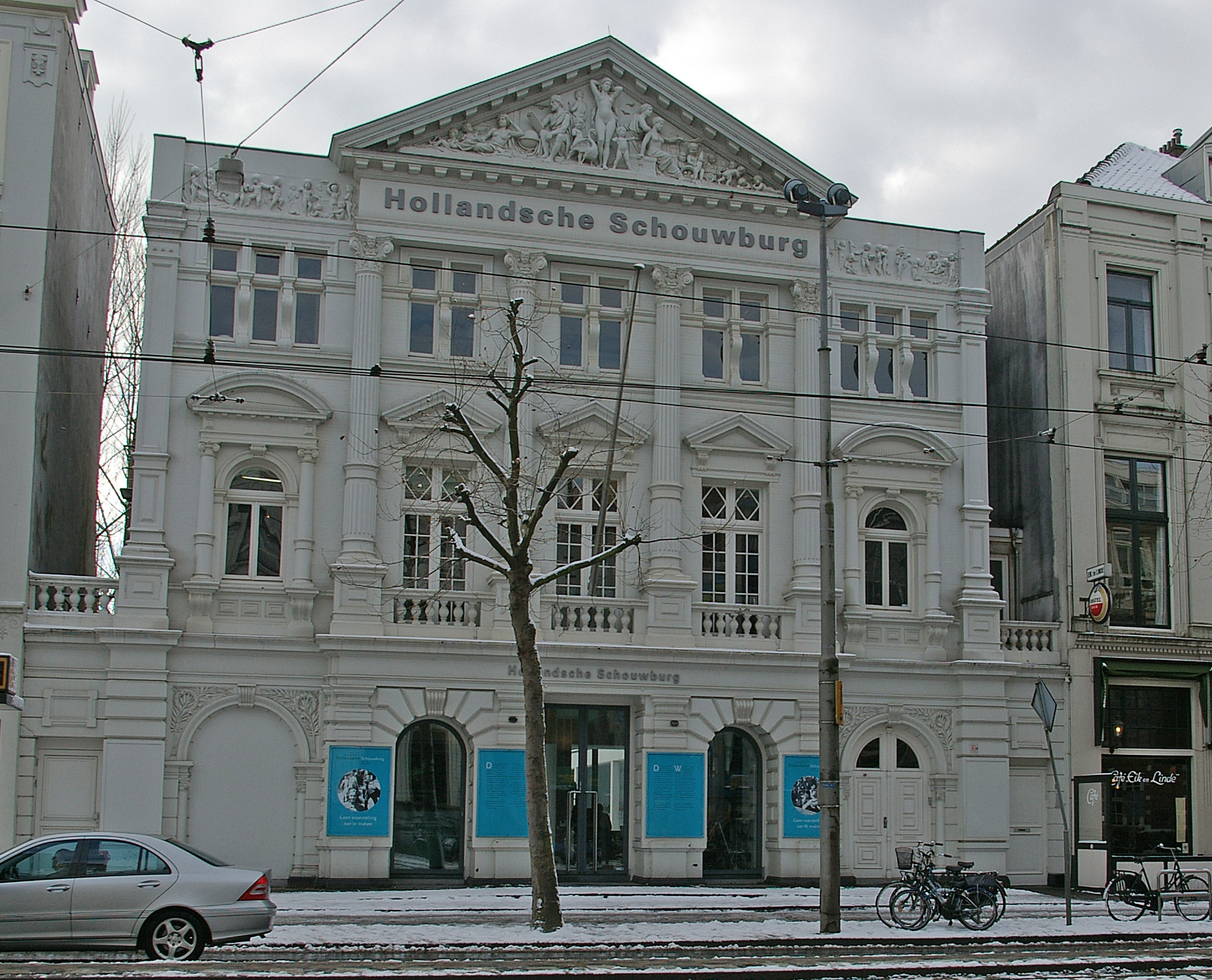 Hollandsche Schouwburg Plantagebuurt Amsterdam.